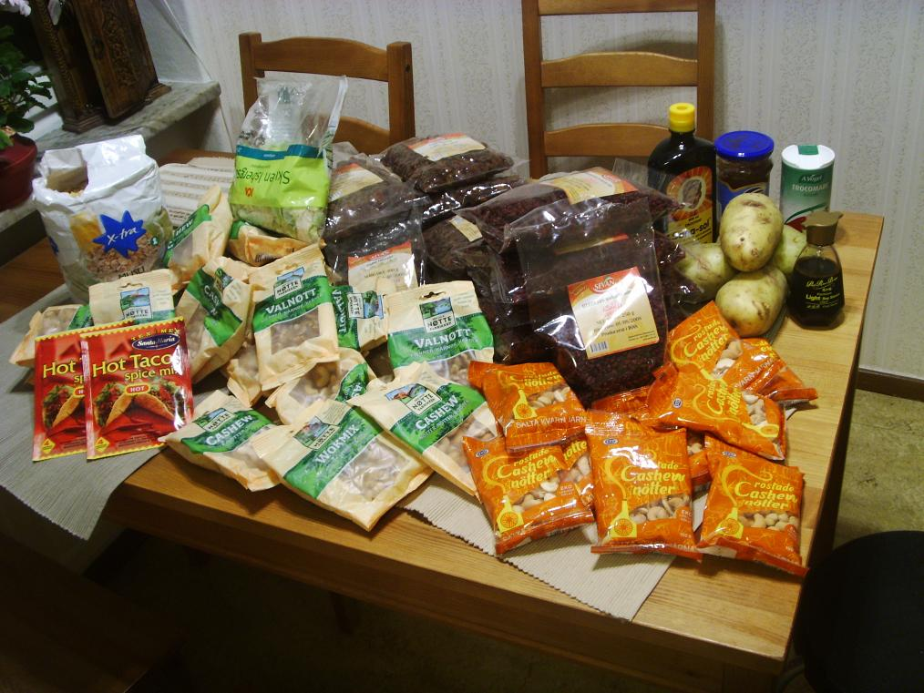 Food got by dumpster diving in Stockholm, Sweden: cashews and walnuts (~2kg), organic cashews (~1kg), raisins (~5,5kg), berberis berries (~1,7kg), potatoes (~1kg), muesli (1 kg), Hot Taco Spice Mix (around 400g, for 40 servings), herbal salt, salad (250g), light soy sauce, orange marmelade, vitaminized syrup. More pictures